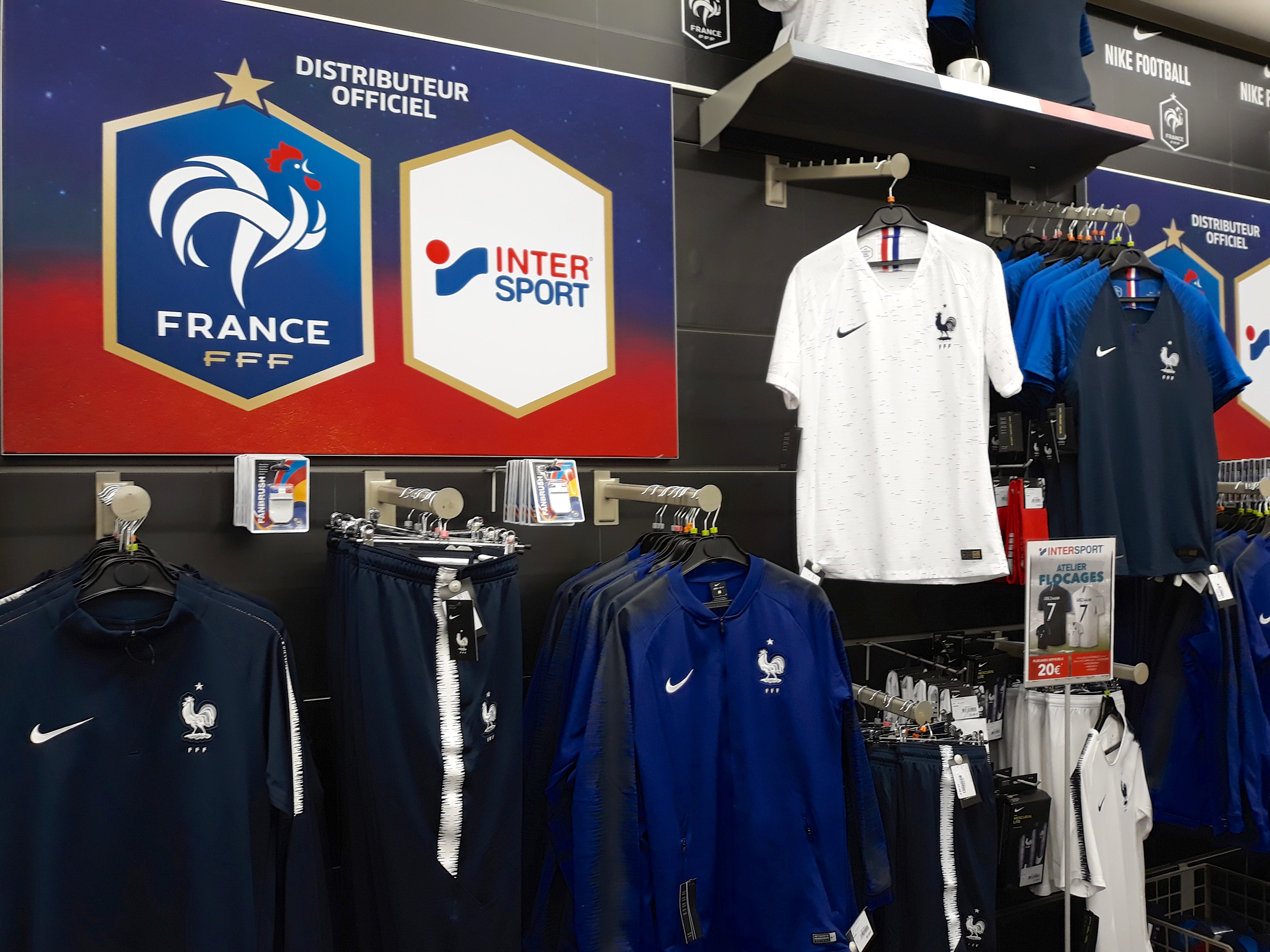 France Jersey for 2018 World Cup